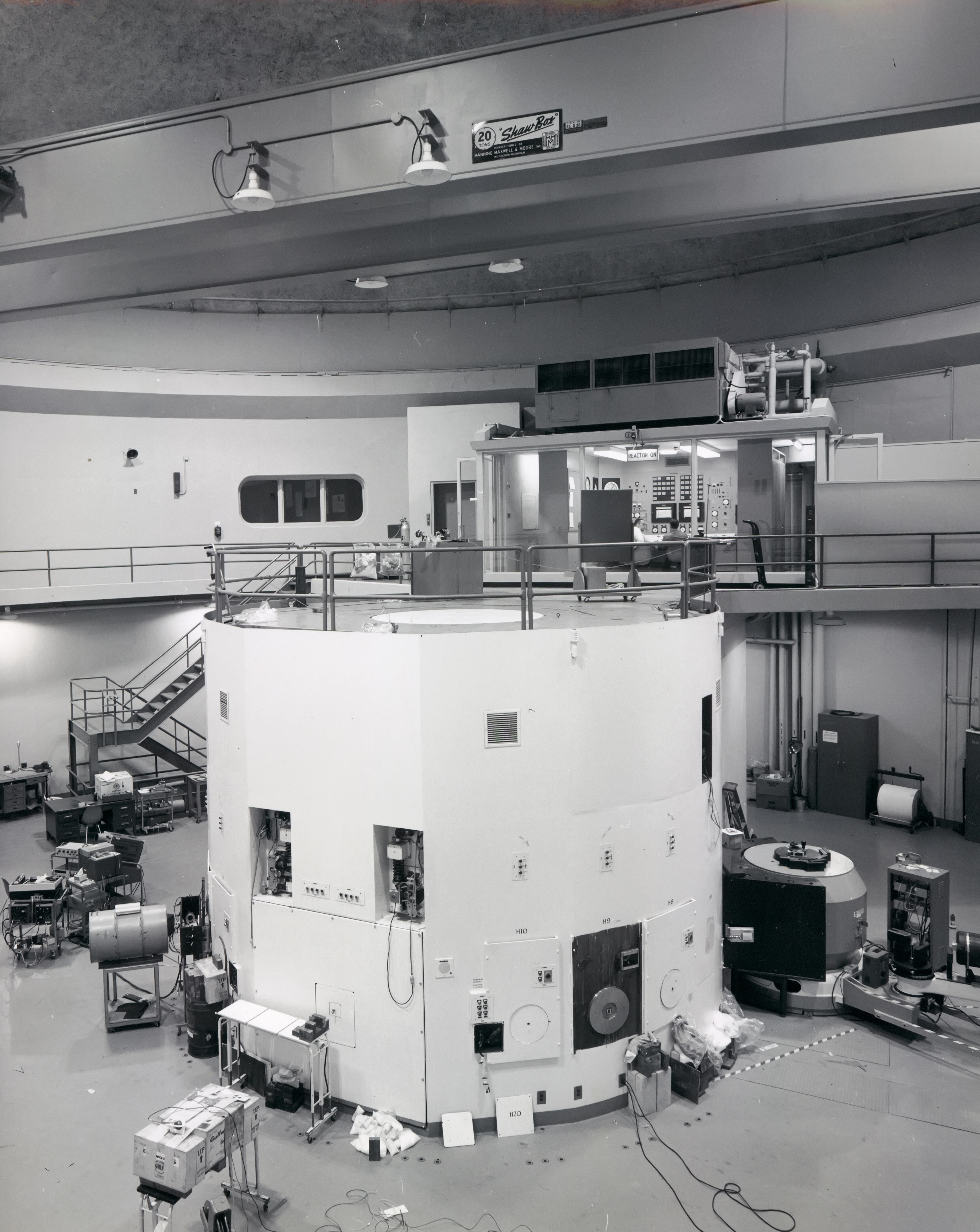 The research reactor inside the Neely Nuclear Research Center